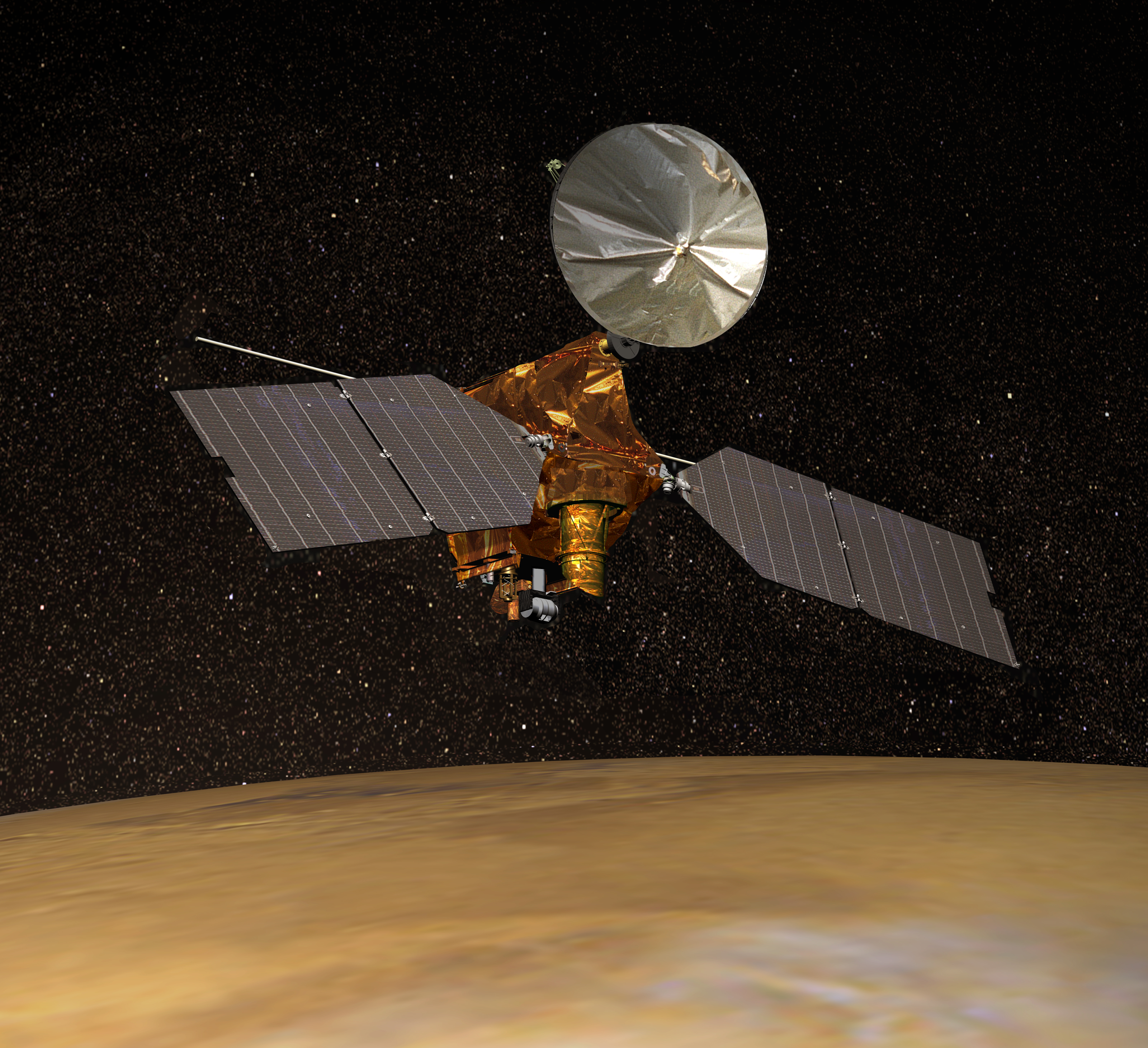 NASA's Mars Reconnaissance Orbiter, depicted above Mars in this artist's concept illustration, began orbiting Mars on March 10, 2006. It carries three cameras, a ground-penetrating radar, a mineral-mapping spectrometer and a sounding instrument to examine the atmosphere. These science instruments are the High Resolution Imaging Science Experiment, the Context Camera, the Mars Color Imager, the Shallow Subsurface Radar, the Compact Reconnaissance Imaging Spectrometer for Mars and the Mars Climate Sounder.